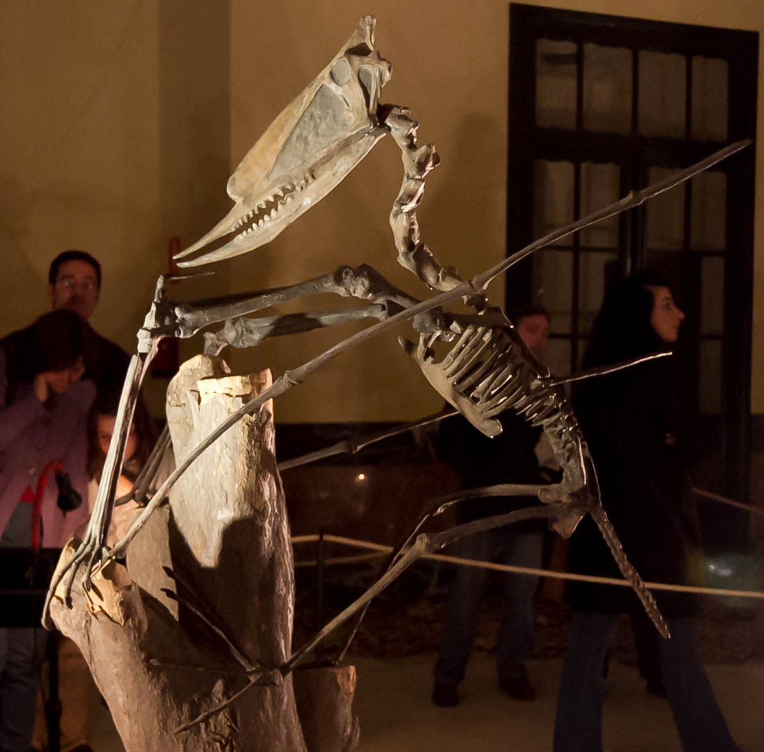 We went to the Dinopétrea dinosaur fossil exhibition in Seville on Saturday and saw some great exhibits. The Dsungaripterus weii in this pic was a genus of pterosaur with an average wingspan of three metres (ten feet). It lived during the Early Cretaceous, in China, where the first fossil was found in the Junggar Basin. See more about the Dsungaripterus weii at